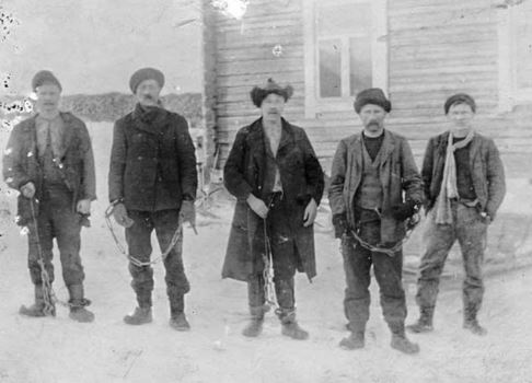 Lumberjacks arrested after the 1906 strike in Sodankylä, Finland.